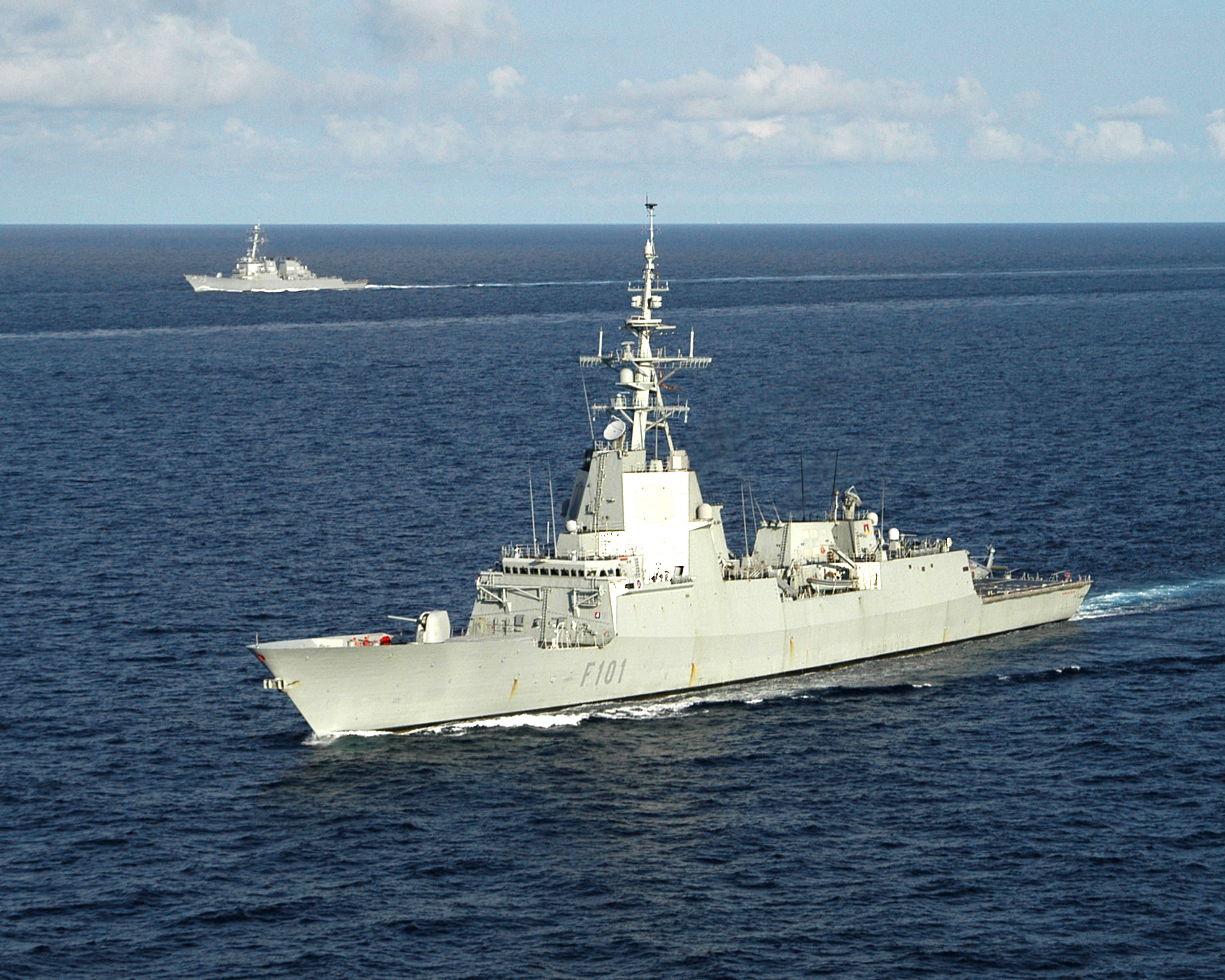 The Spanish Navy frigate Álvaro de Bazán (F101) conducts a close quarters exercise near a U.S. Navy guided missile destroyer while underway in the Atlantic Ocean on 15 July 2005.